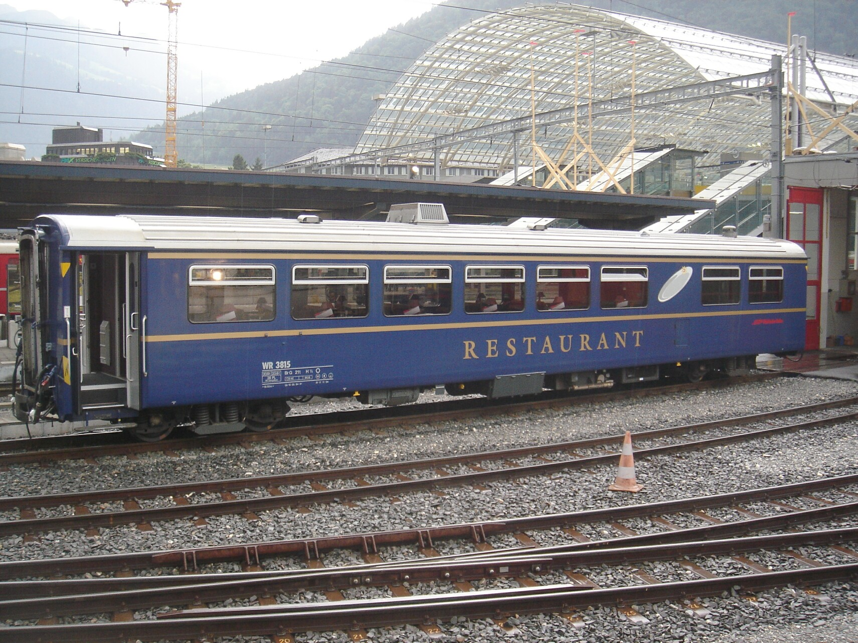 RhB dining car WR 3815 standing besides the Chur shed on a rainy day.